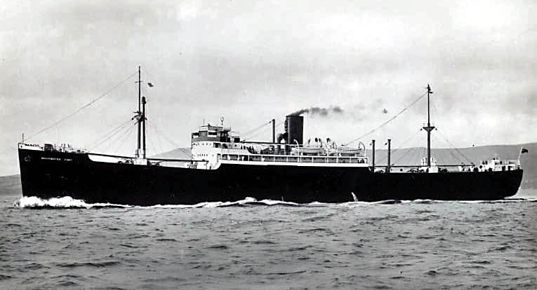 The 7,071 GRT steam turbine ship Manchester Port, built in Scotstoun in 1935 by Blythswood Shipbuilding Co for Manchester Liners. She was scrapped in Bilbao in 1965.